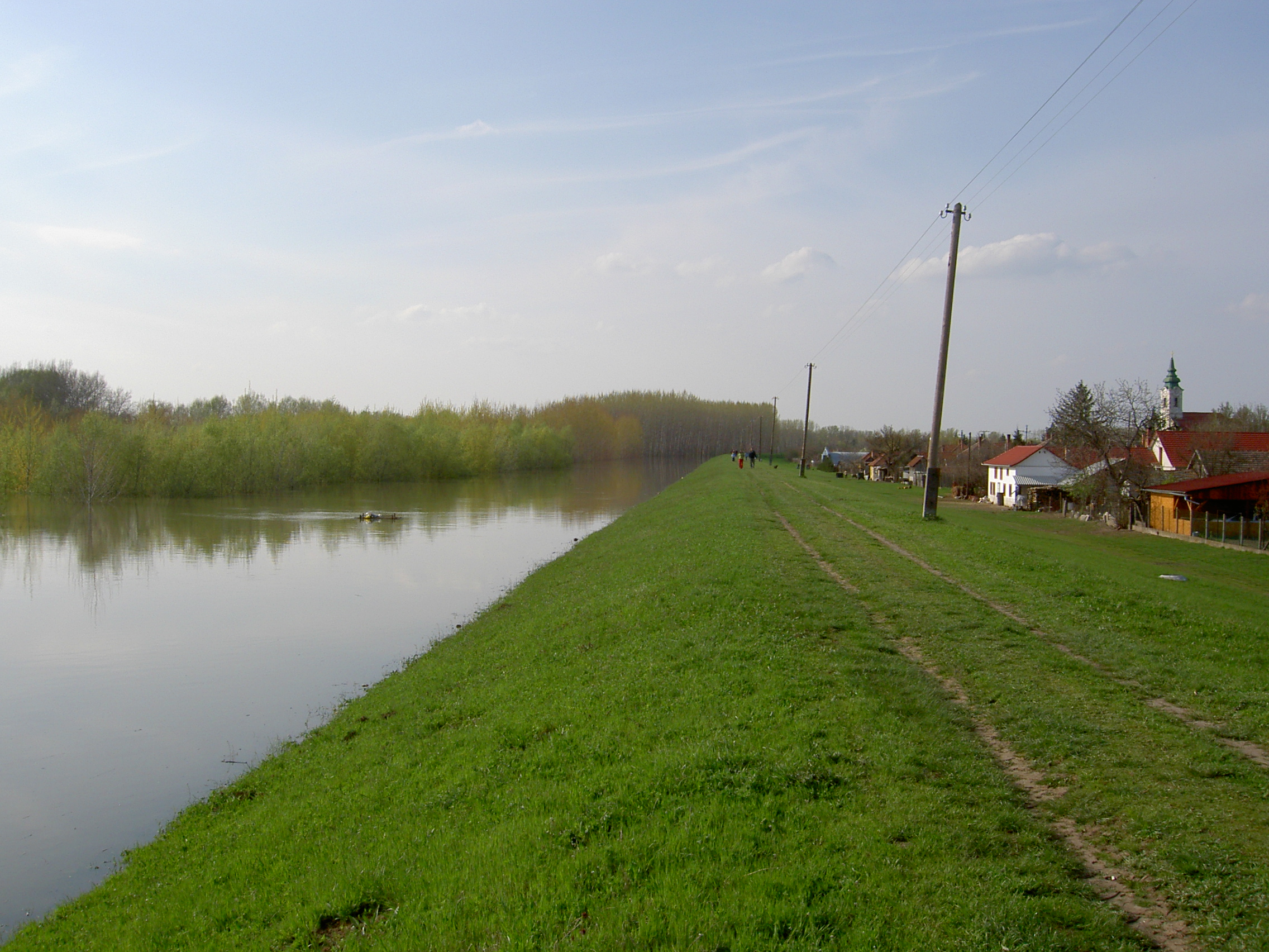 Tisza is coming up on the dyke wallsNorsk bokmål: Tisza kommer opp på dikeveggene